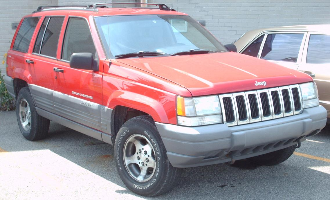 1996-1998 Jeep Grand Cherokee photographed in Montreal, Quebec, Canada.